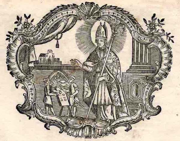 Honoratus of Amiens (Saint Honorius, Saint Honore) the picture is mistakenly said to be of Honoratus of Arles, but the loaves are attributes of this bishop of Amiens).